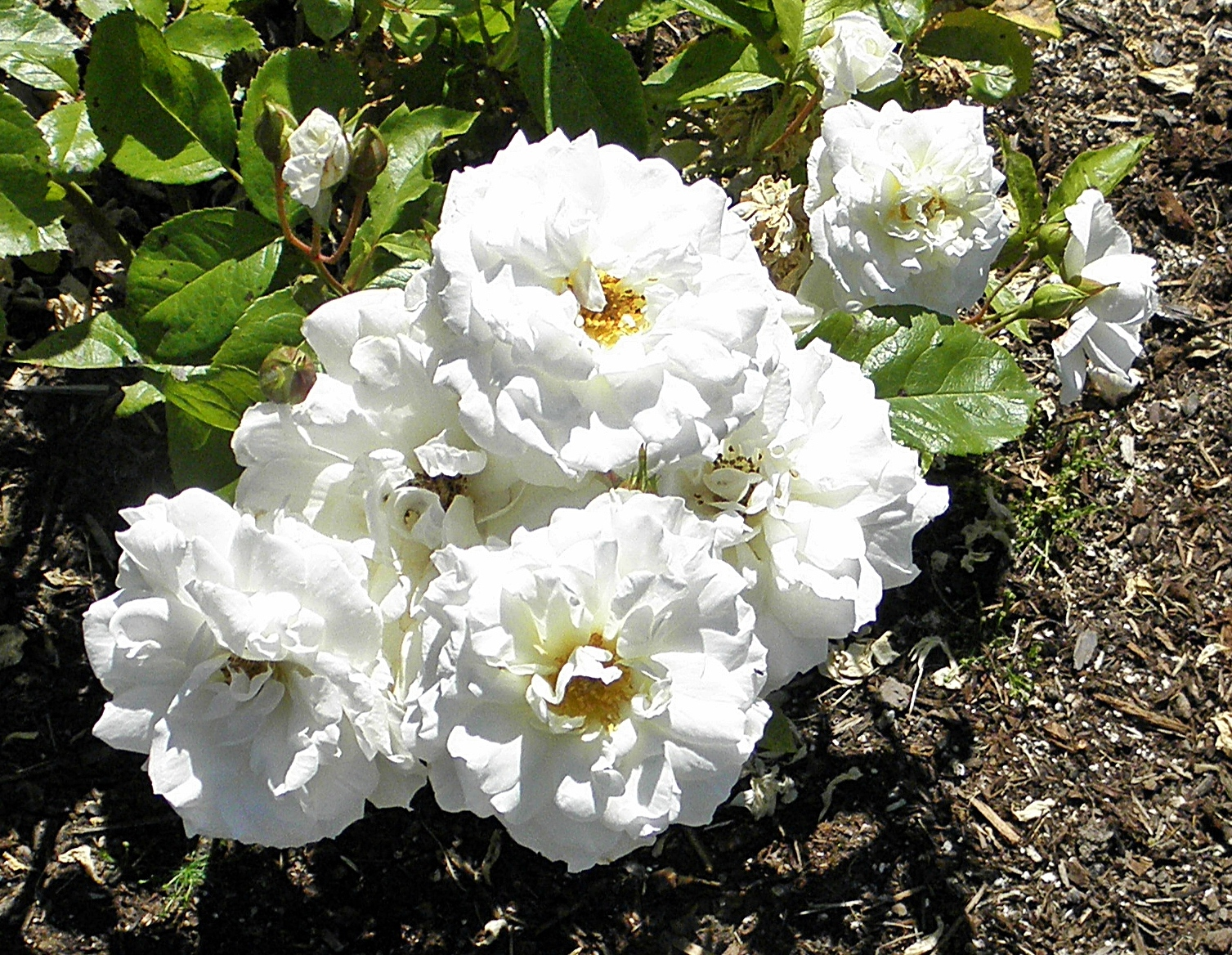 Floribunda Rose 'Irene Of Denmark'; Bush's Pasture Park Rose Garden, Salem, Or. 97301